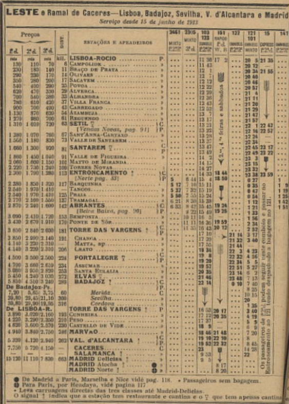 Timetable of the trains from Lisbon - Rossio, in Portugal, to Madrid (via Marvão) and Badajoz, in Spain. This image was published on the Guia Official dos Caminhos de Ferro de Portugal No. 168, of October 1913, and scanned by the Biblioteca Nacional de Portugal.